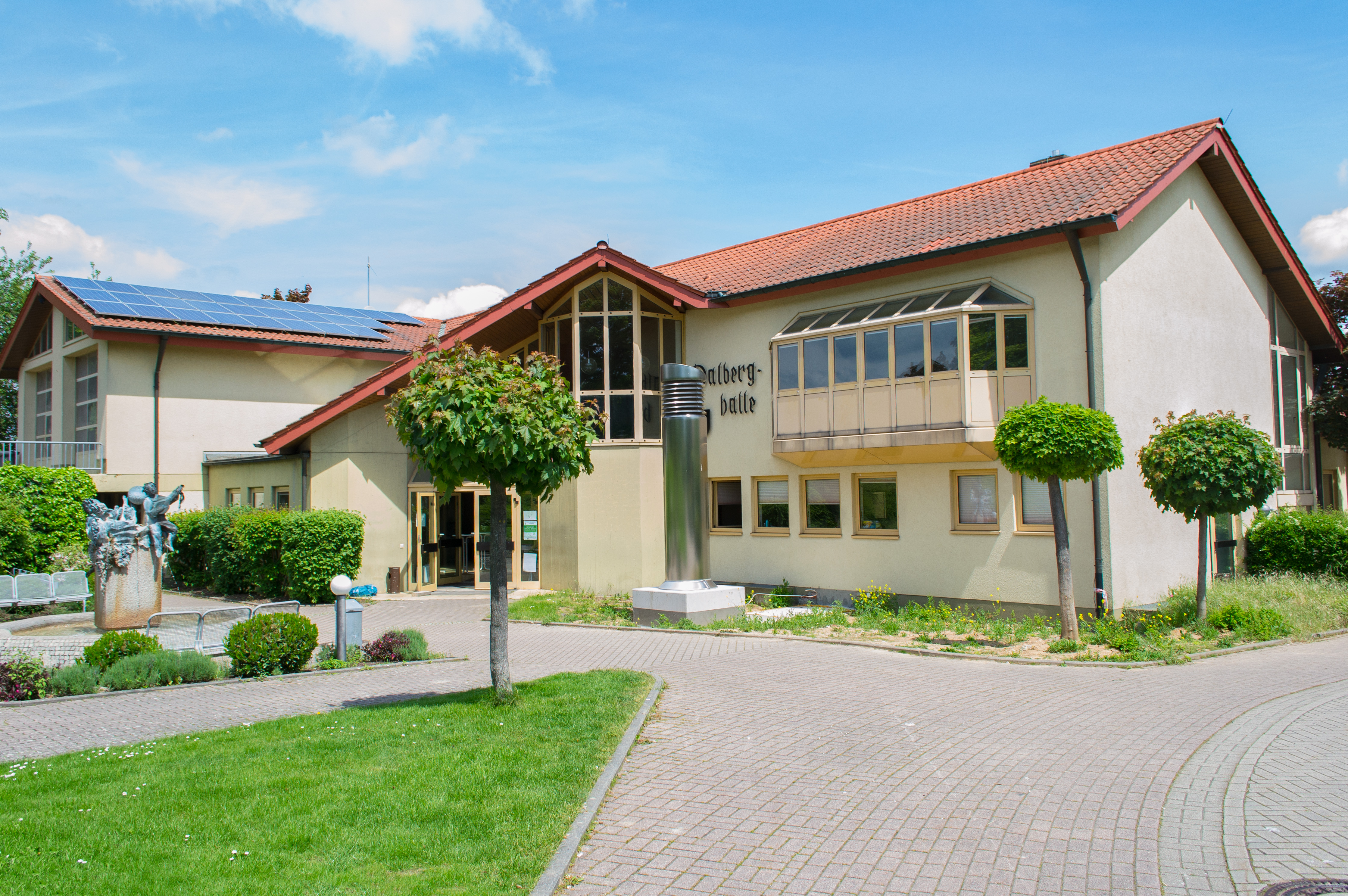 The Dalberghalle in Essingen (Palatinate)